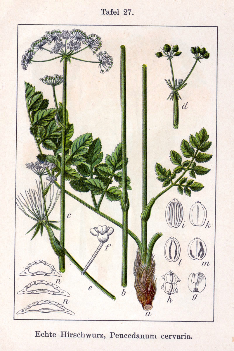 Peucedanum cervaria (L.) Lapeyr. Original Description Echte Hirschwurz, Peucedanum cervaria